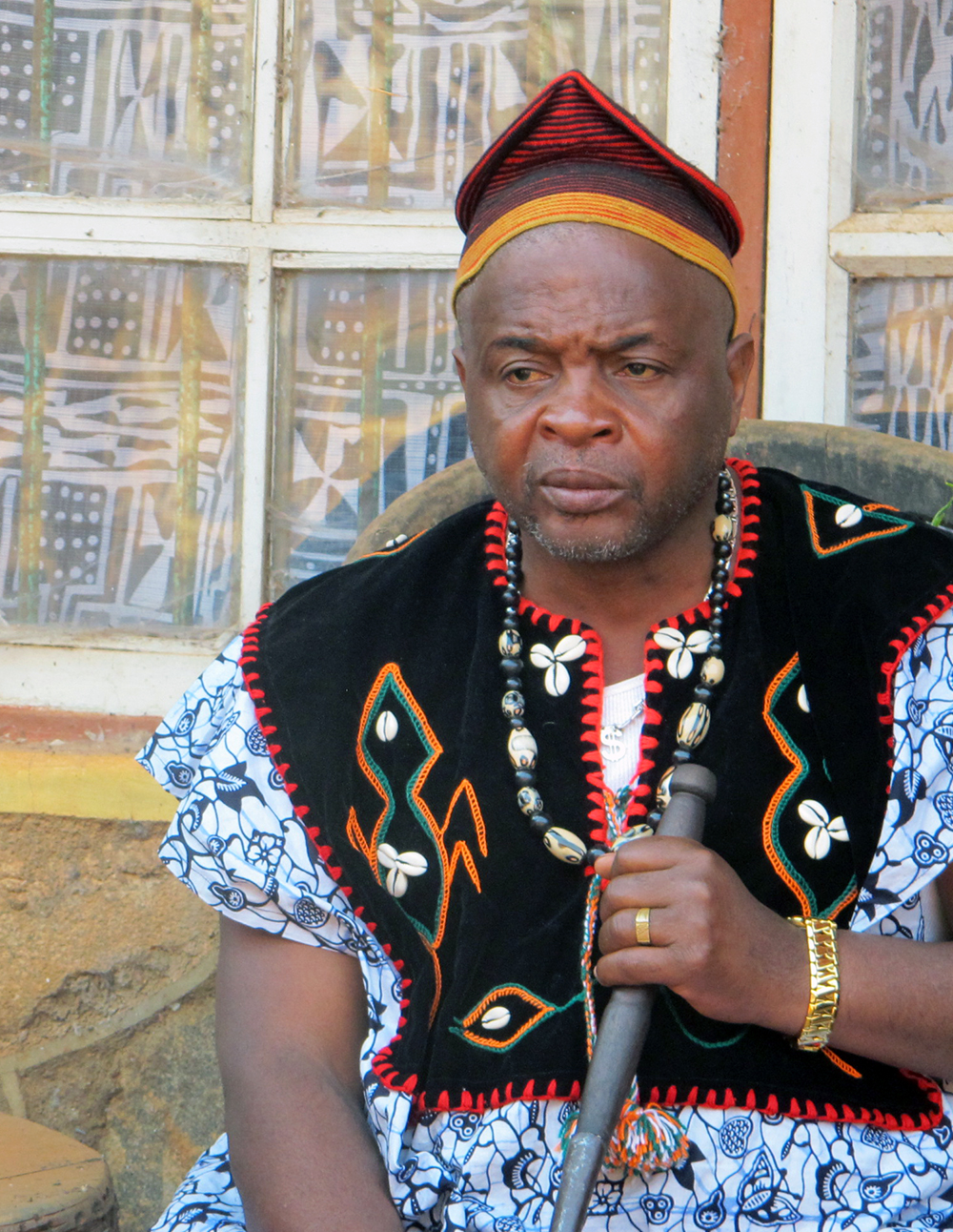 His majesty, Sehm Mbinglo I, the current Fon of the Nso people in Kumbo (Cameroon).